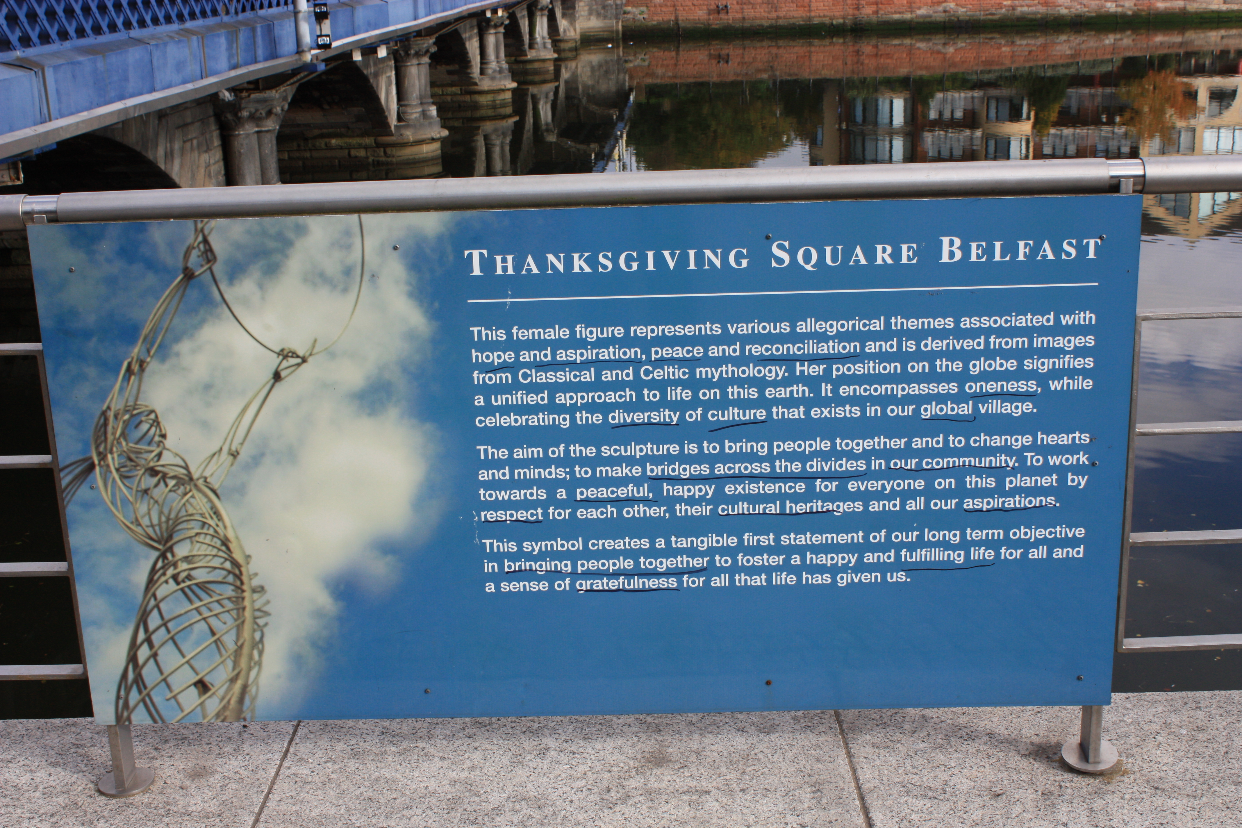 Information board at the "Beacon of Hope" by Andy Scott, Thanksgiving Square, Lanyon Place, Belfast, Northern Ireland, October 2009